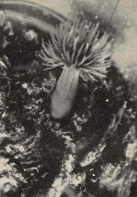 Cylista leucolena Subject: Cylista Tag: Invertebrates